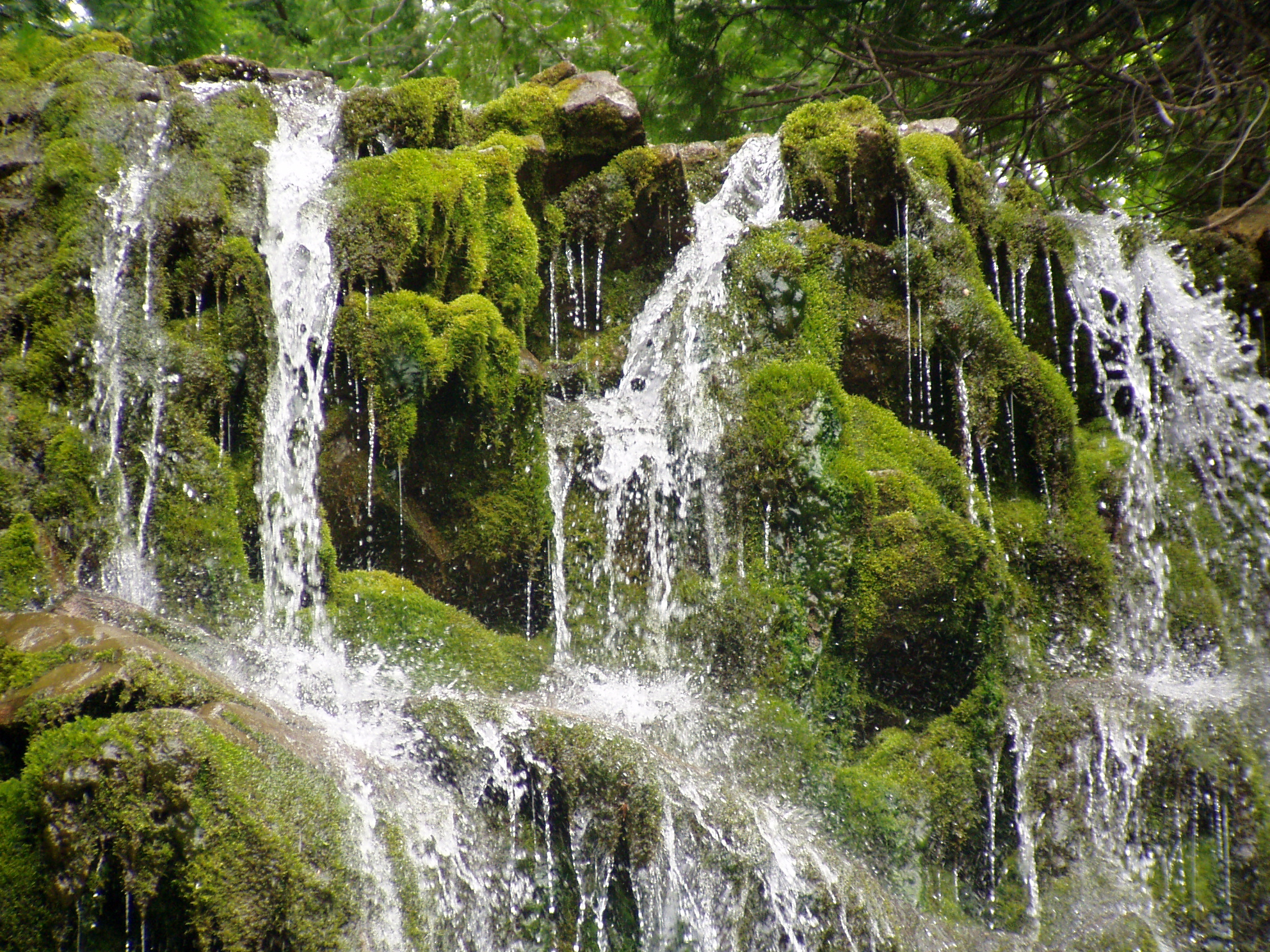 Water splashing over mossy rocks. Close-up of waterfall along the "La Chute" hiking trail. Photo taken in July 2005 by Danielle Langlois at the Forillon National Park in Quebec, Canada.